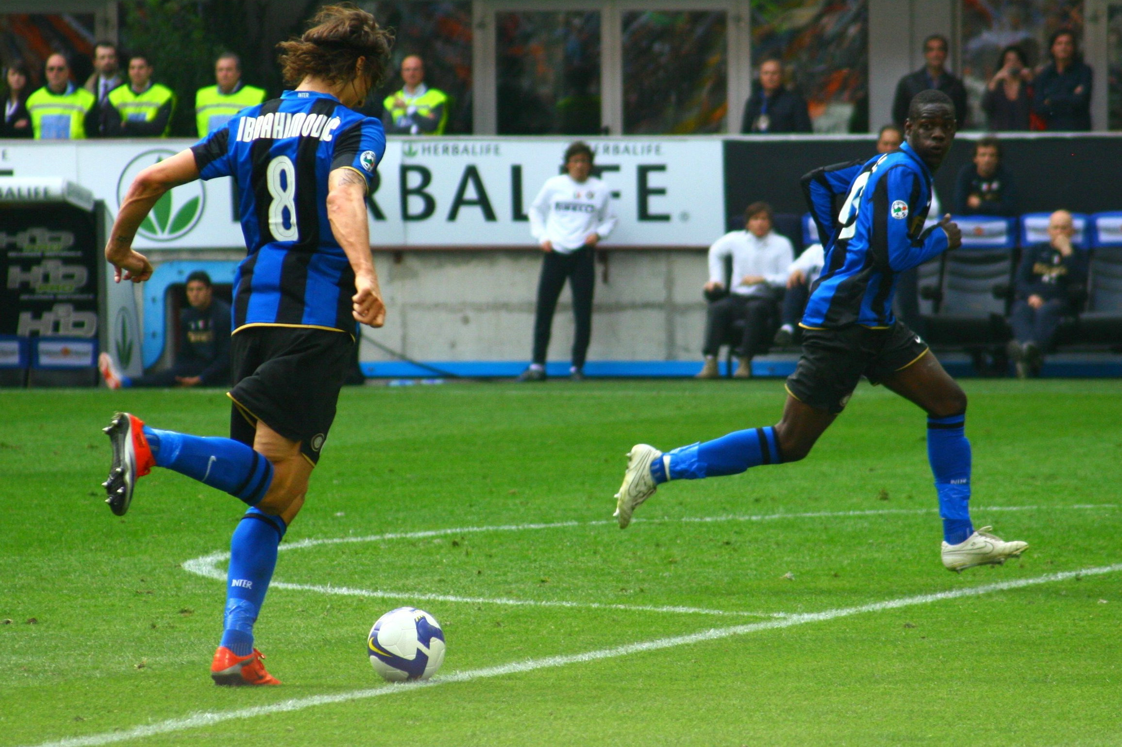 Mario Balotelli and Zlatan Ibrahimovic